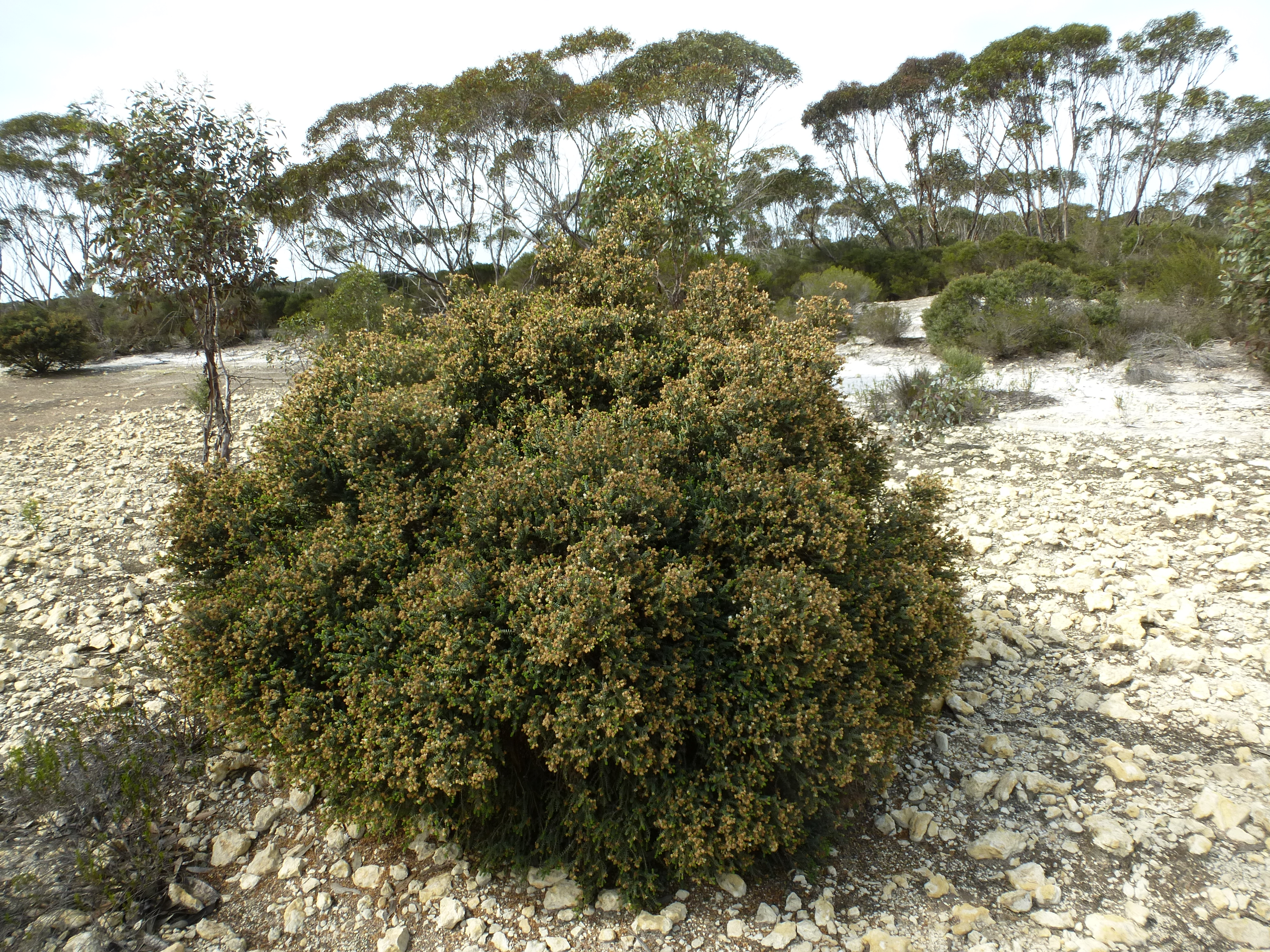 Melaleuca at the type location on Scaddan Road